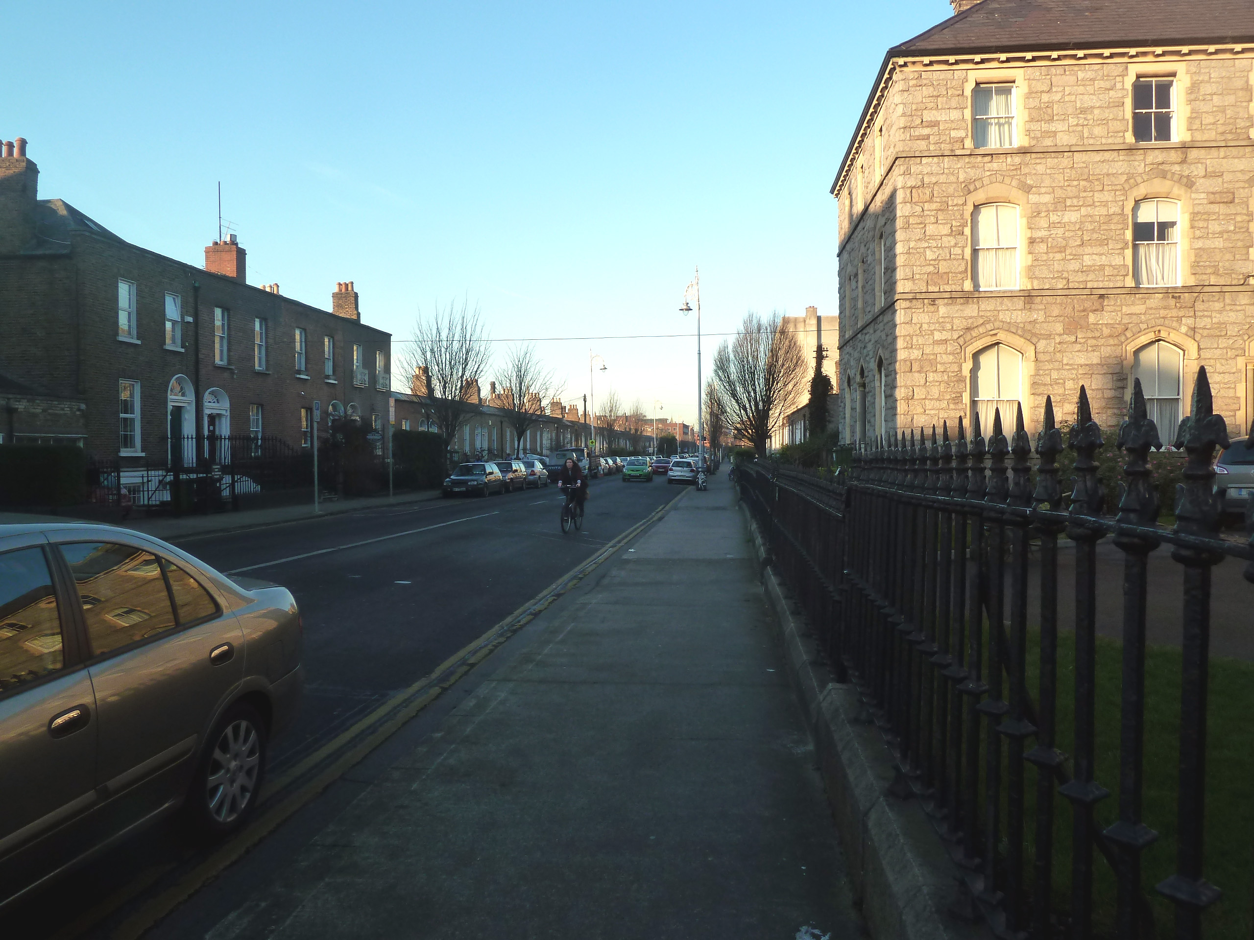 Photo of Heytesbury Street, Dublin, Ireland. Taken 1 January 2013